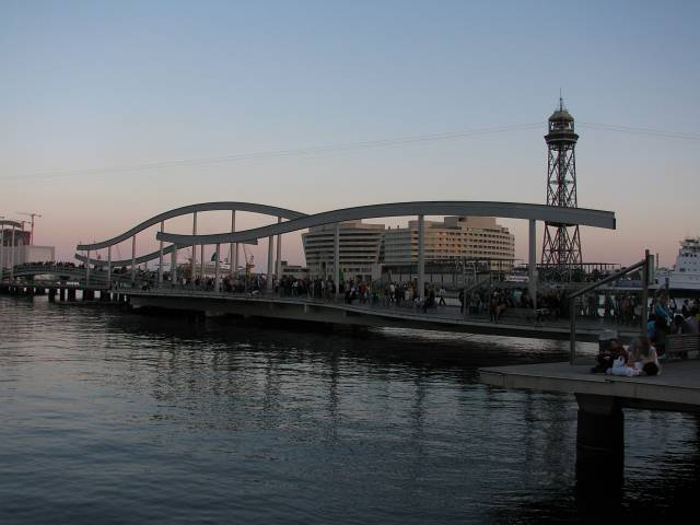 Barcelona, Spain